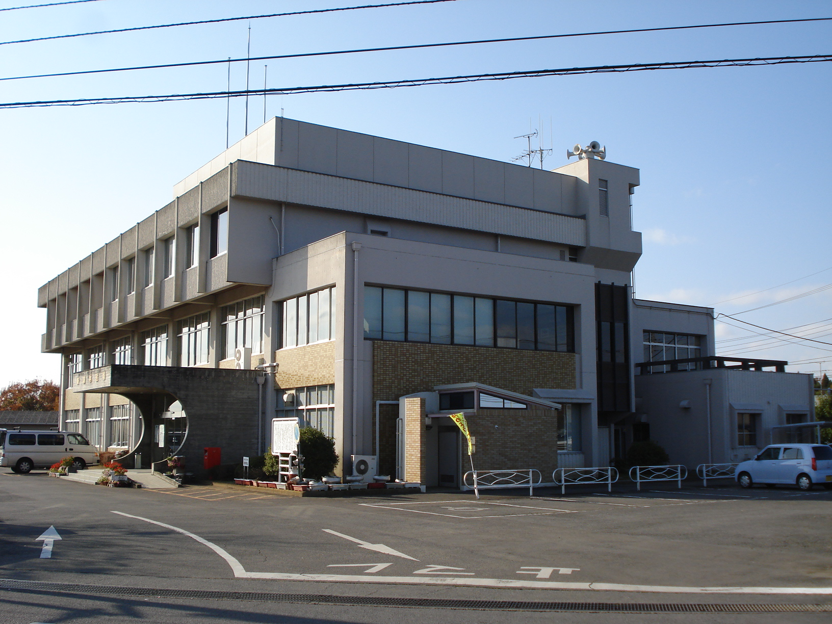 Miho Village Office